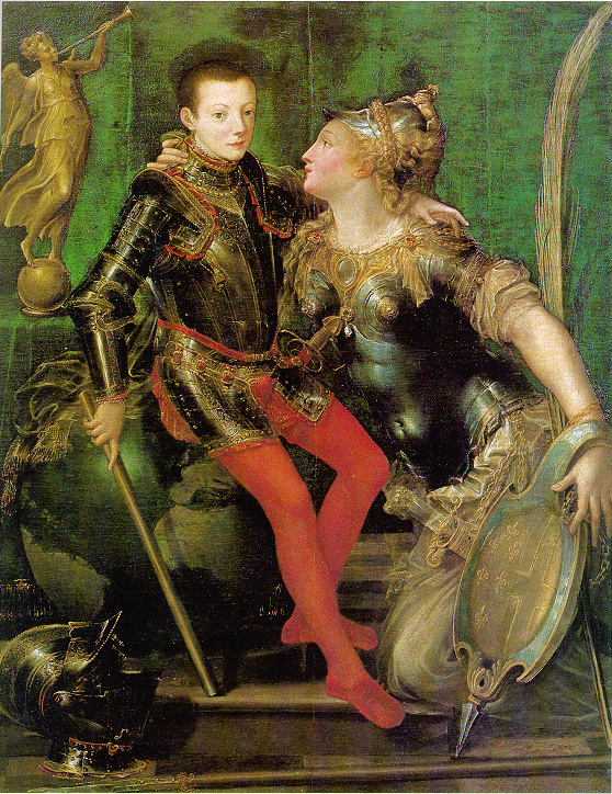 Alexander Farnese, Duke of Parma (1545-1592), son of Ottavio Farnese, Duke of Parma and Piacenza, and Margaret of Parma (daughter of Holy Roman Emperor Charles V. of Austria and Johanna Maria van der Gheynst), father of Ranuccio I Farnese, duke of Parma and Piacenza, from: Ritratto allegorico con Parma che abbraccia Alessandro Farnese